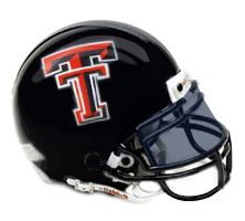 Rendering of a Texas Tech Red Raiders football helmet with a tinted visor. NOTE: In 2006, the NCAA banned the use of tinted visors.